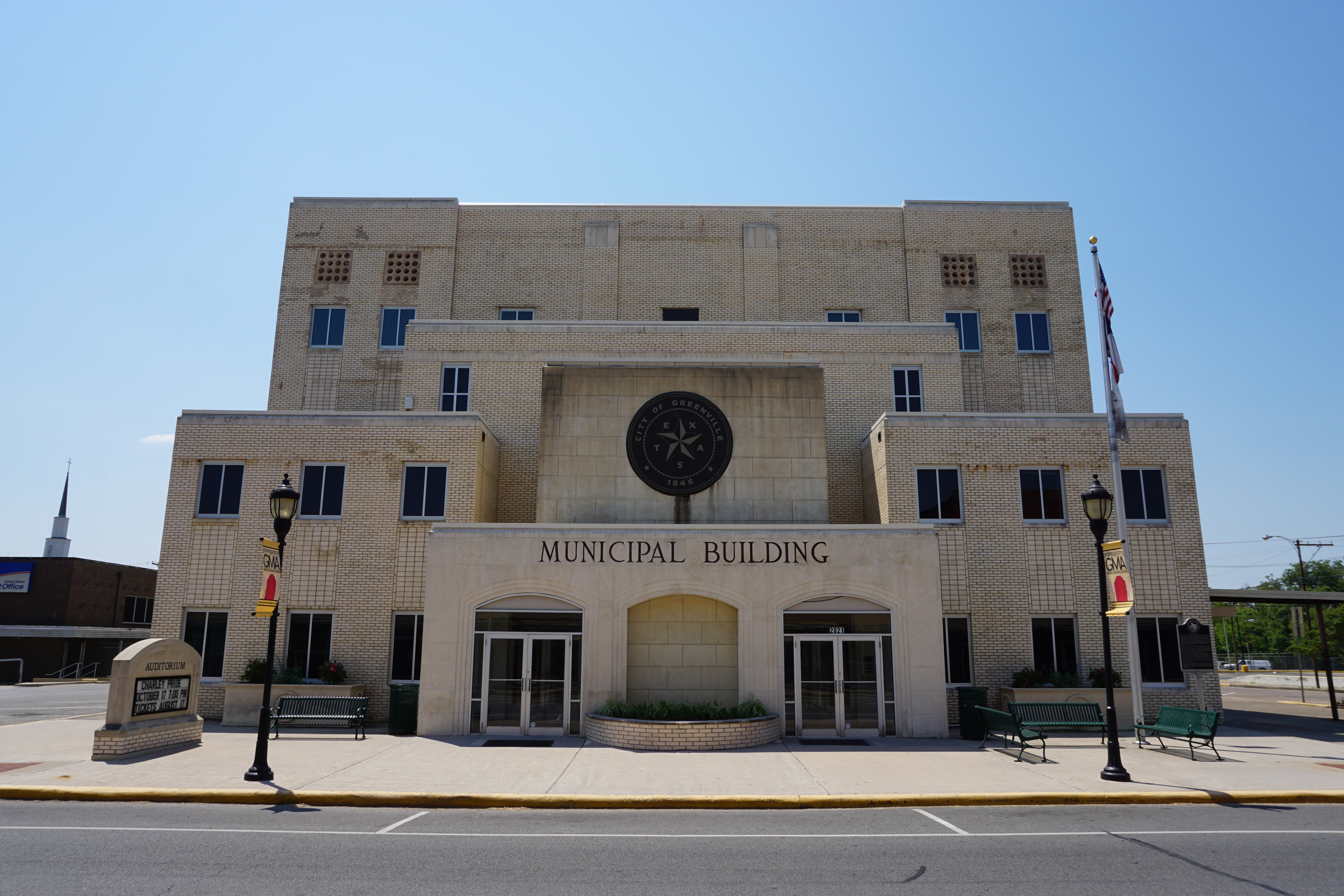 The Greenville Municipal Auditorium in Greenville, Texas (United States).